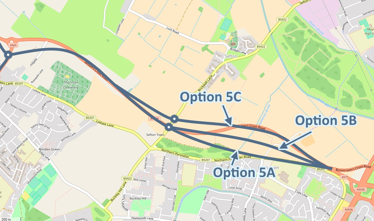 Based on road alignment proposals from Sefton Council: (Page 92). Utilising map graphics from OpenStreetMap.